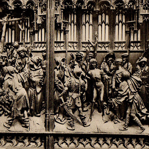 Retable of Saint George